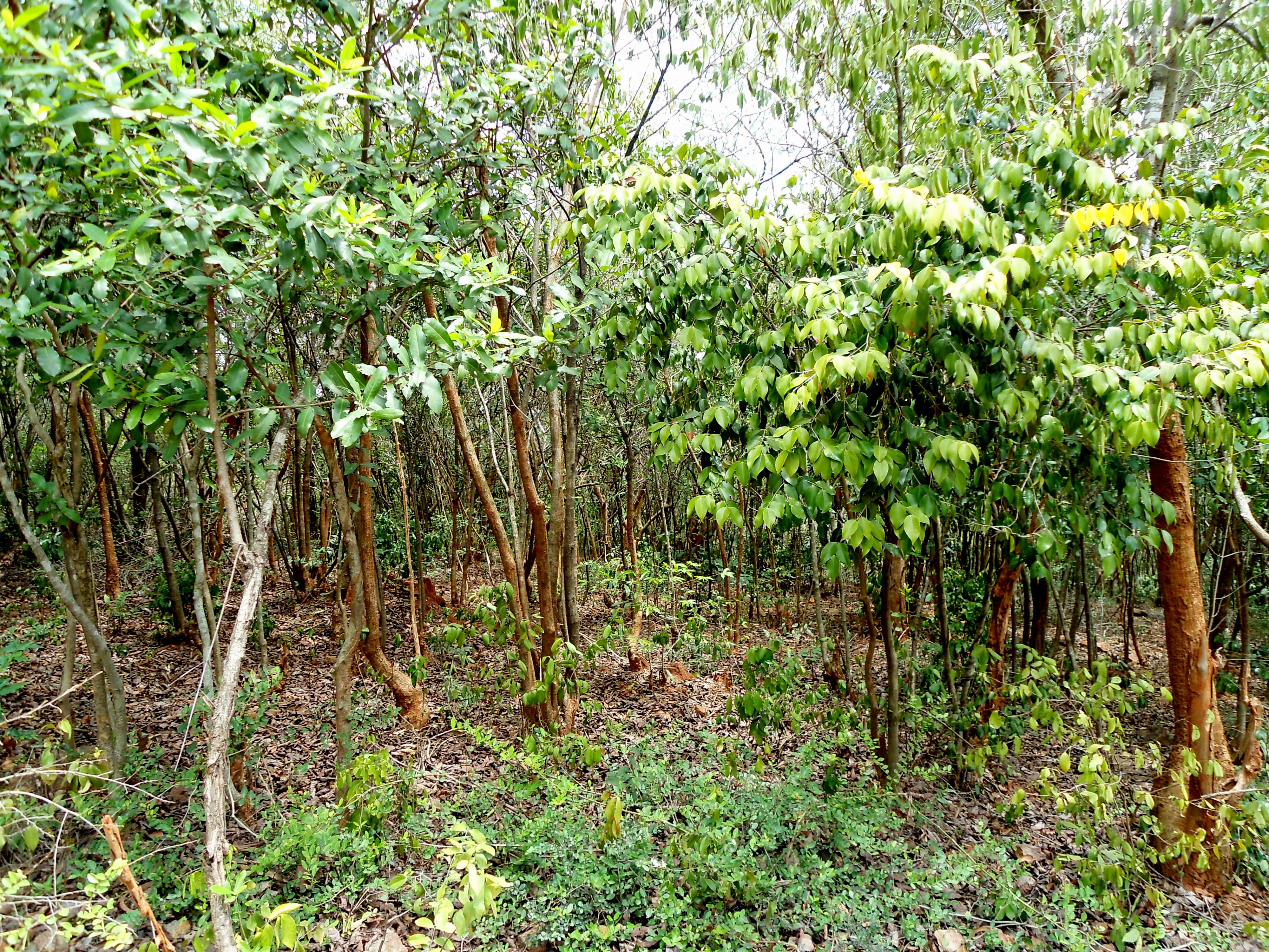 View of forests at Kambalkonda Wildlife Sanctuary in Visakhapatnam